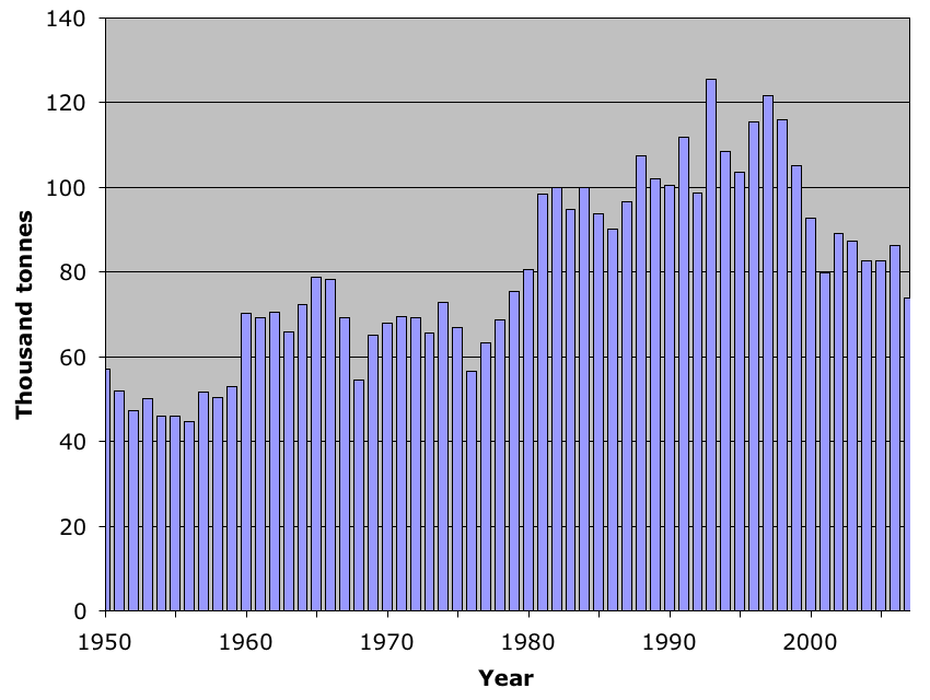 Graph of world catch tonnage 1950–2007 for blue crab, Callinectes sapidus, using FAO catch data